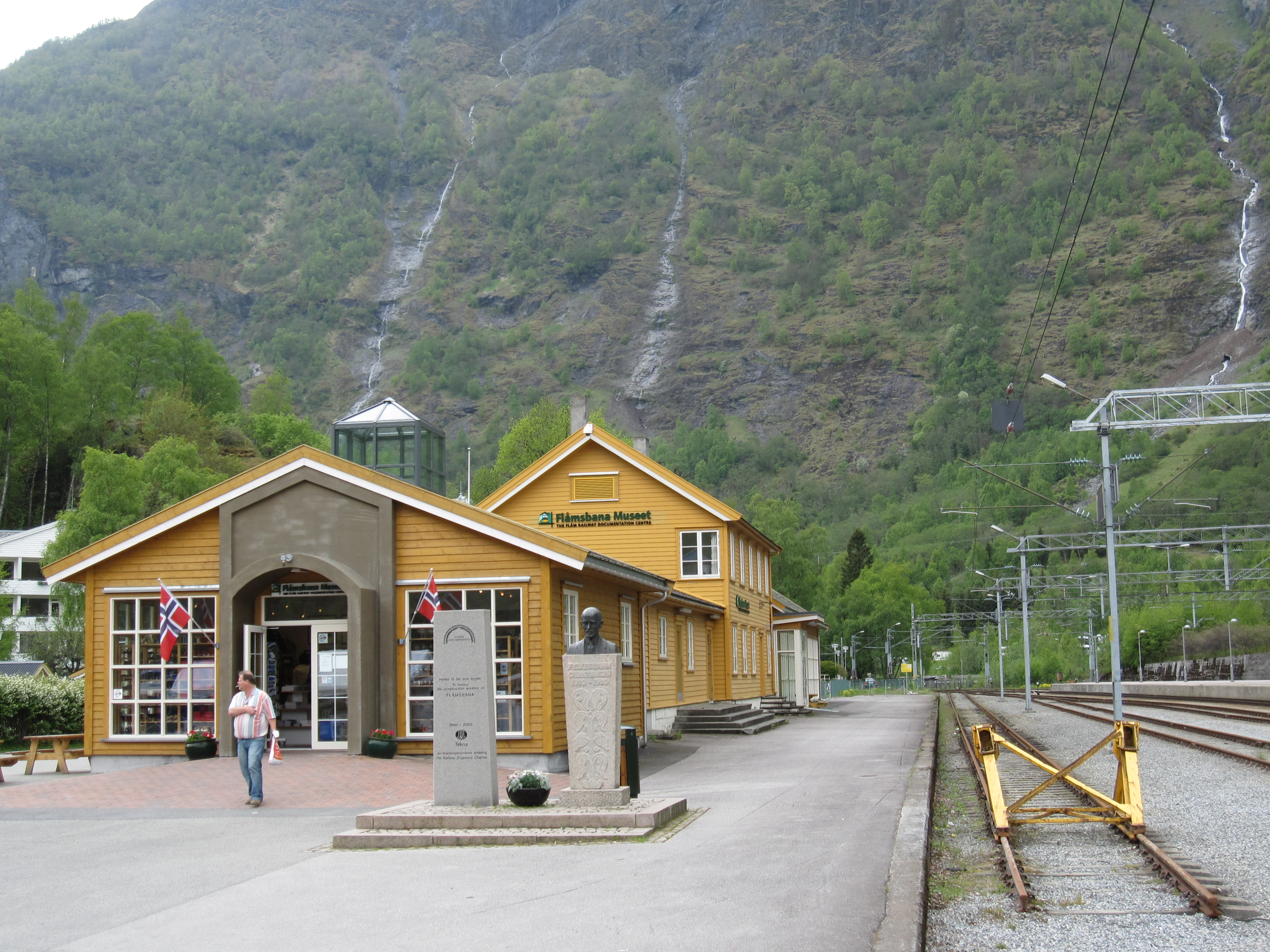 Flåmsbana railway museum near the start of the railway in Flåm.